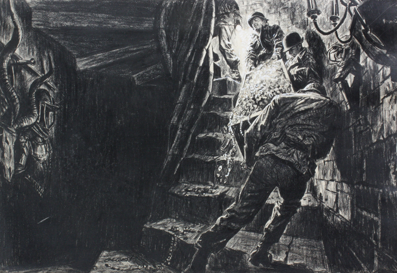 Duotone painting of US Army soldiers bringing a chest of jewelry and other valuables from the basement of a European castle, during WWII, by Gil Cohen. Gil Cohen (born July 28, 1931 in Philadelphia) is an American artist, noted for his illustrations of aircraft and people in military service, who also illustrated men's magazines, books and movie posters.